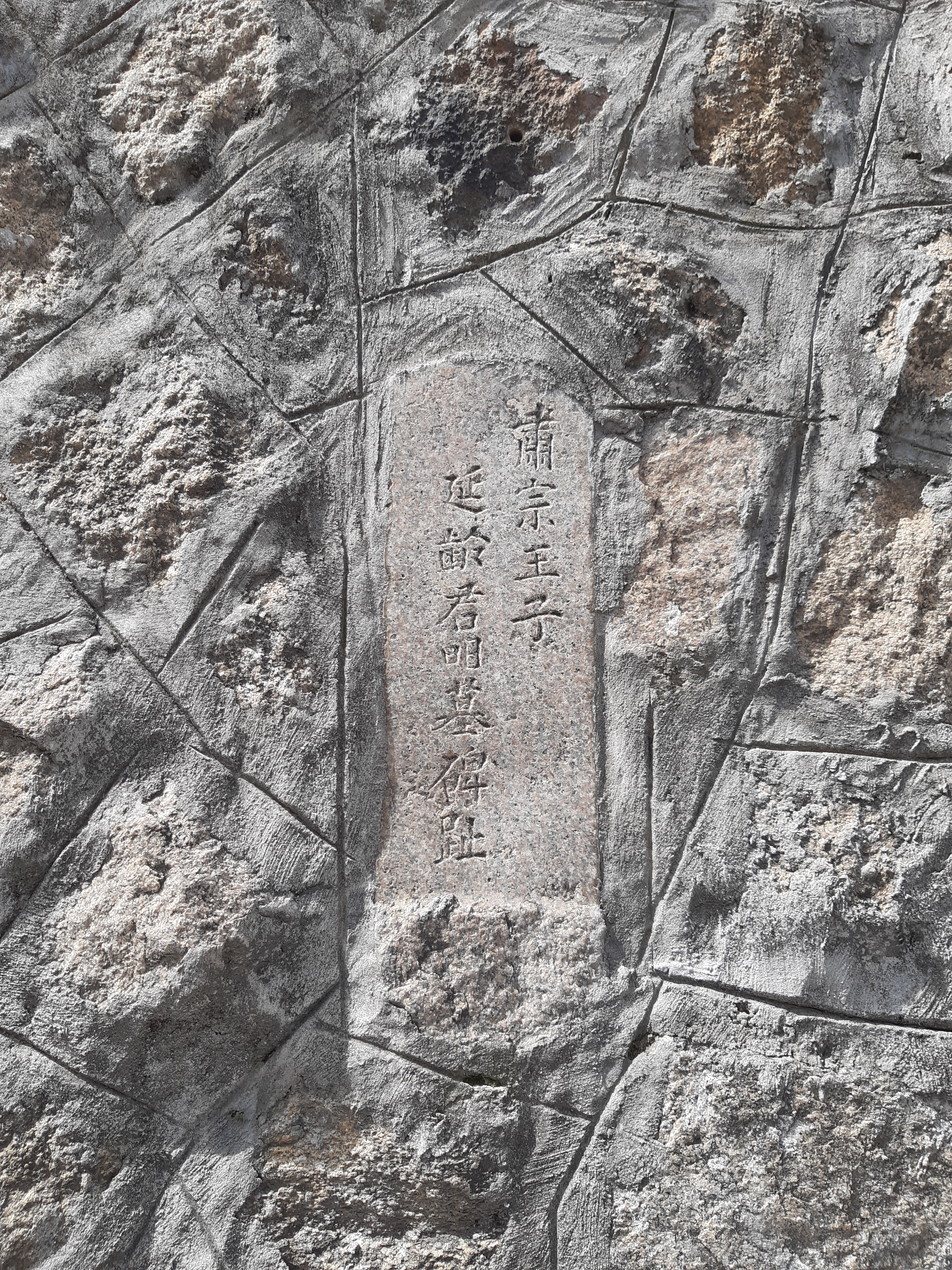 Sindobi Stele to Prince Yeollyeong Yi Hwon, son of Sukjong of Joseon.